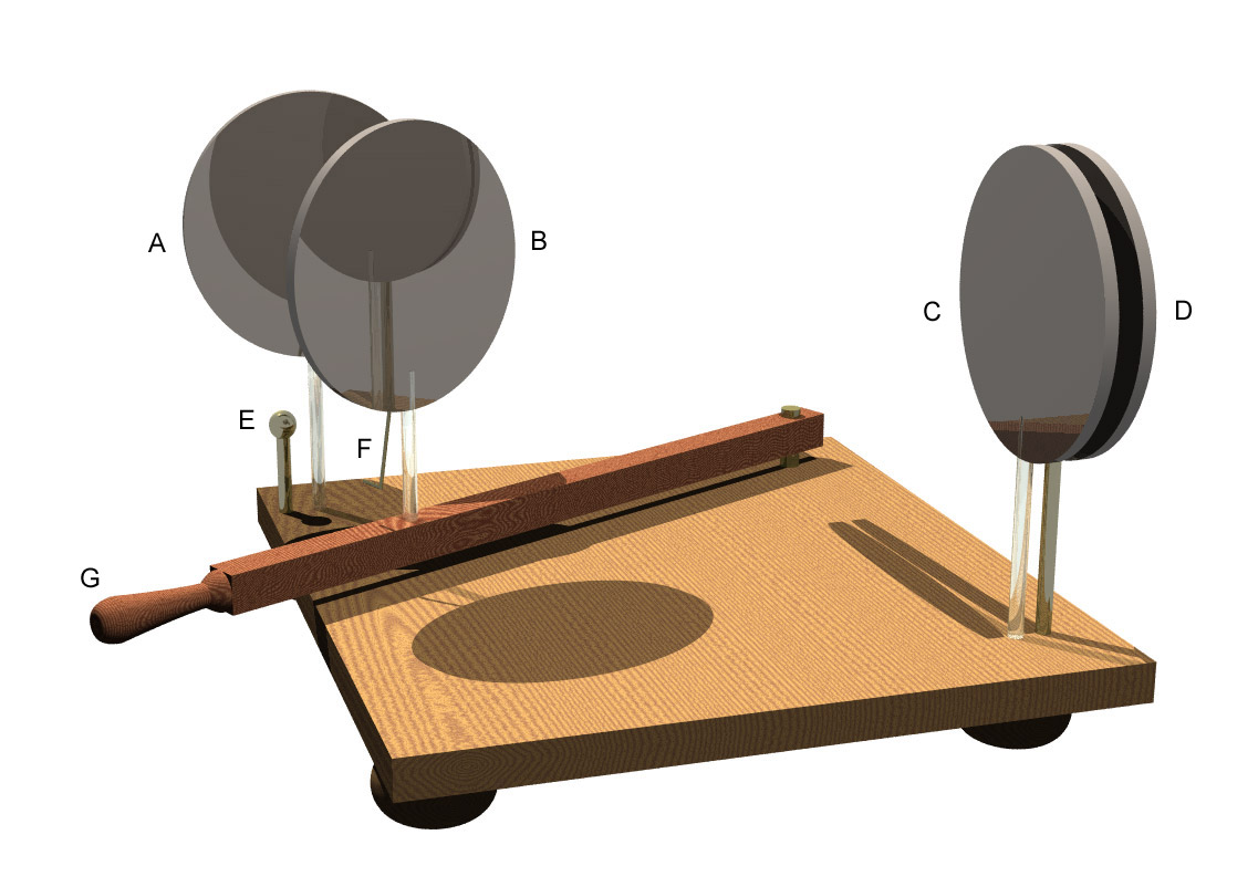 Cavallo's multiplier: a 1795 device to amplify a small electric charge so that it could be detected by the electroscopes of the day. The charge to be multiplied was applied to a metal plate A, which was supported on an insulating glass post. A moveable insulated metal plate B was brought close to A (though not permitted to touch it), and then grounded via a conducting wire F making contact with an earthed pin E. The charge on A caused charge separation on B due to electrostatic induction. Plate B was then moved away with the handle G, breaking its earth connection with E. Since B was insulated, it acquired and retained a small charge opposite in sign to the charge on A. Plate B was then brought into electrical contact with the third metal plate C, which was insulated. Since both B and C were conducting, B would transfer a portion of its charge to C. To maximise the transferred charge, C was placed in close proximity to a final metal plate D, which was earthed. This image was generated in POV-Ray v3.6. The code used to generate the image has been posted to the talk page.